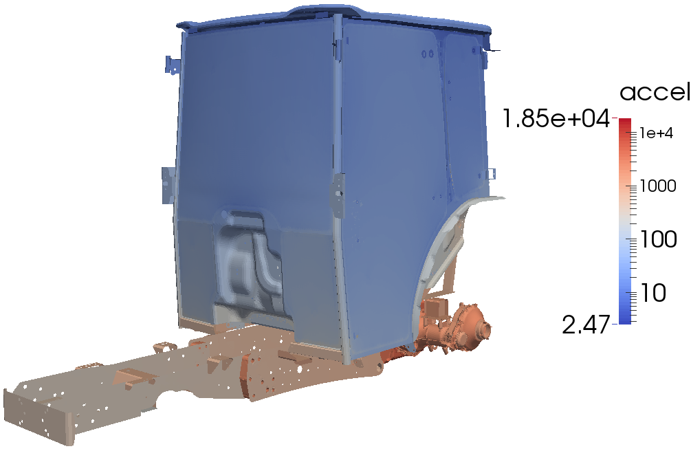 This figure shows the DEA results for the out-of-plane acceleration (measured in mm/s^2) of a tractor which were induced by a shaker on the gearbox at a frequency of 1000 Hz.